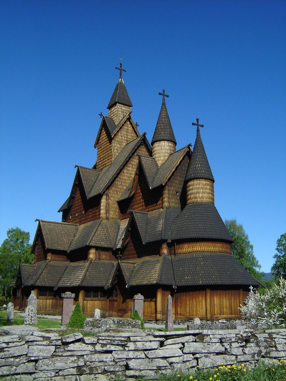 Stave church in Heddal, Norway